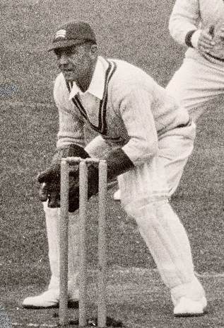 First innings of the touring match against Middlesex at Lord's cricket ground, 23rd May 1936. The Middlesex wicketkeeper is Fred Price. Middlesex won by four wickets. Amir Elahi of India on the attack during the first innings of the touring match against Middlesex at Lord's cricket ground, 23rd May 1936. The Middlesex wicketkeeper is Fred Price, and Patsy Hendren is fielding at first slip.